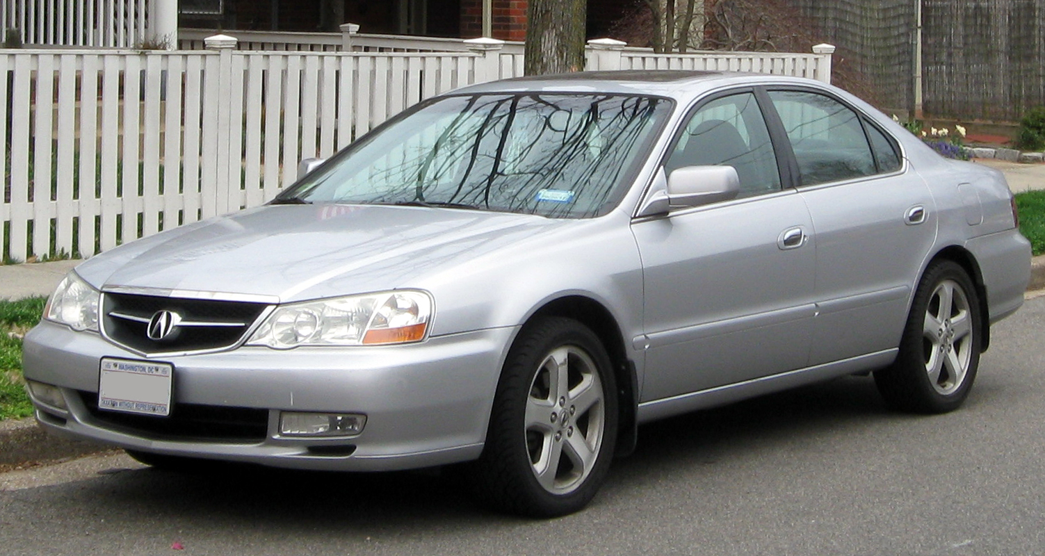 2002-2003 Acura TL photographed in Washington, D.C., USA.